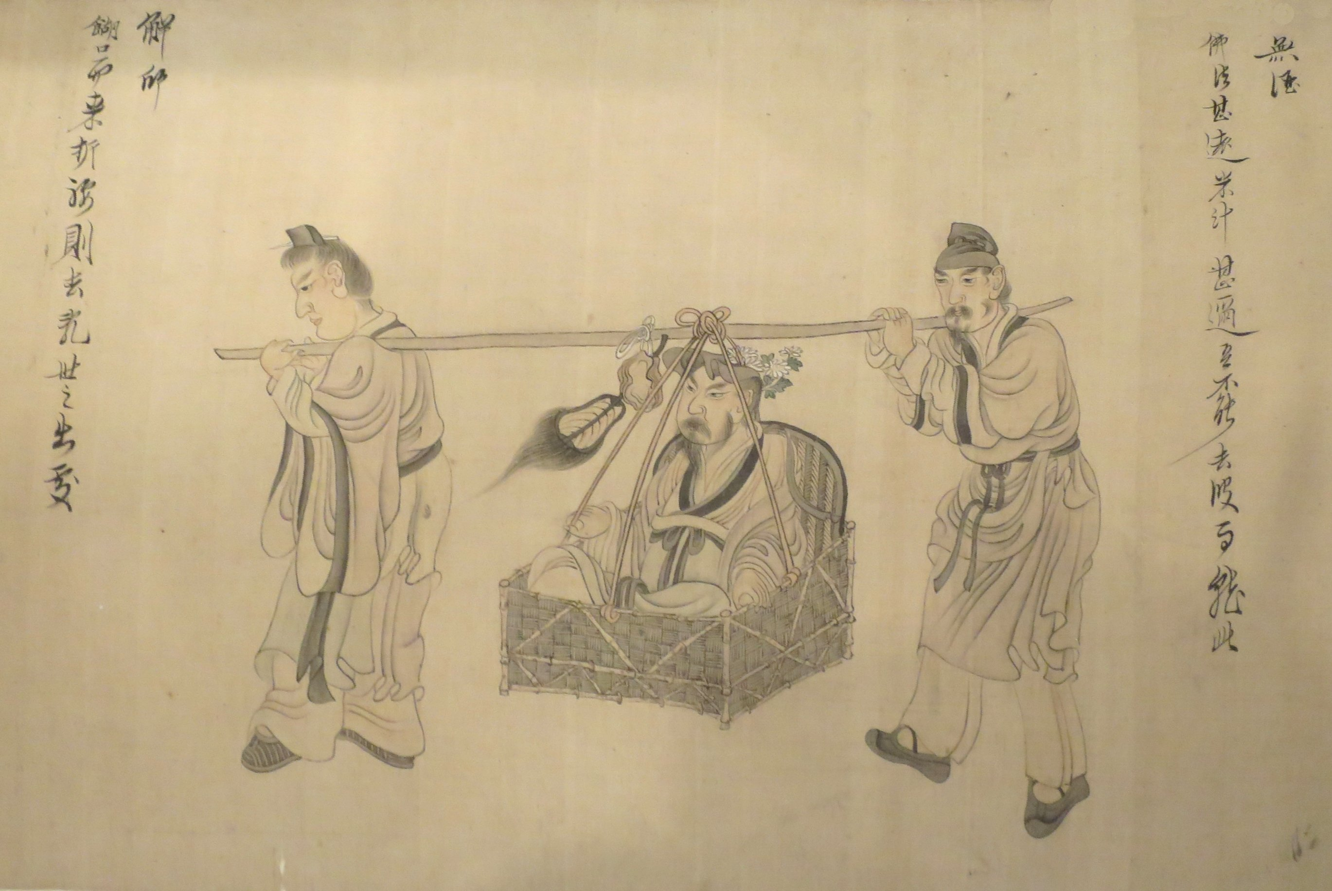 "No Virtue" from handscroll Scenes from the Life of Tao Yuanming, by Chen Hongshou, 1650, Honolulu Museum of Art accession 1912.1